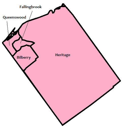 Map of Cumberland, Ontario's ward map used in 1994 and 1997